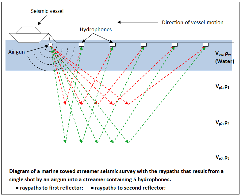 Diagram shows the layout of a marine seismic survey using towed streamers.